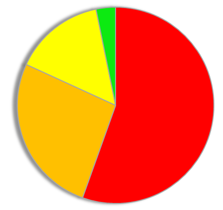 Expressed as a pie chart in the Kanagawa gubernatorial election in 2011, the number of votes for each candidate. explanatory notes ■ - Yuji Kuroiwa ■ - Junichi Tsuyuki ■ - Hiroko Kamoi ■ - Osamu Teruya